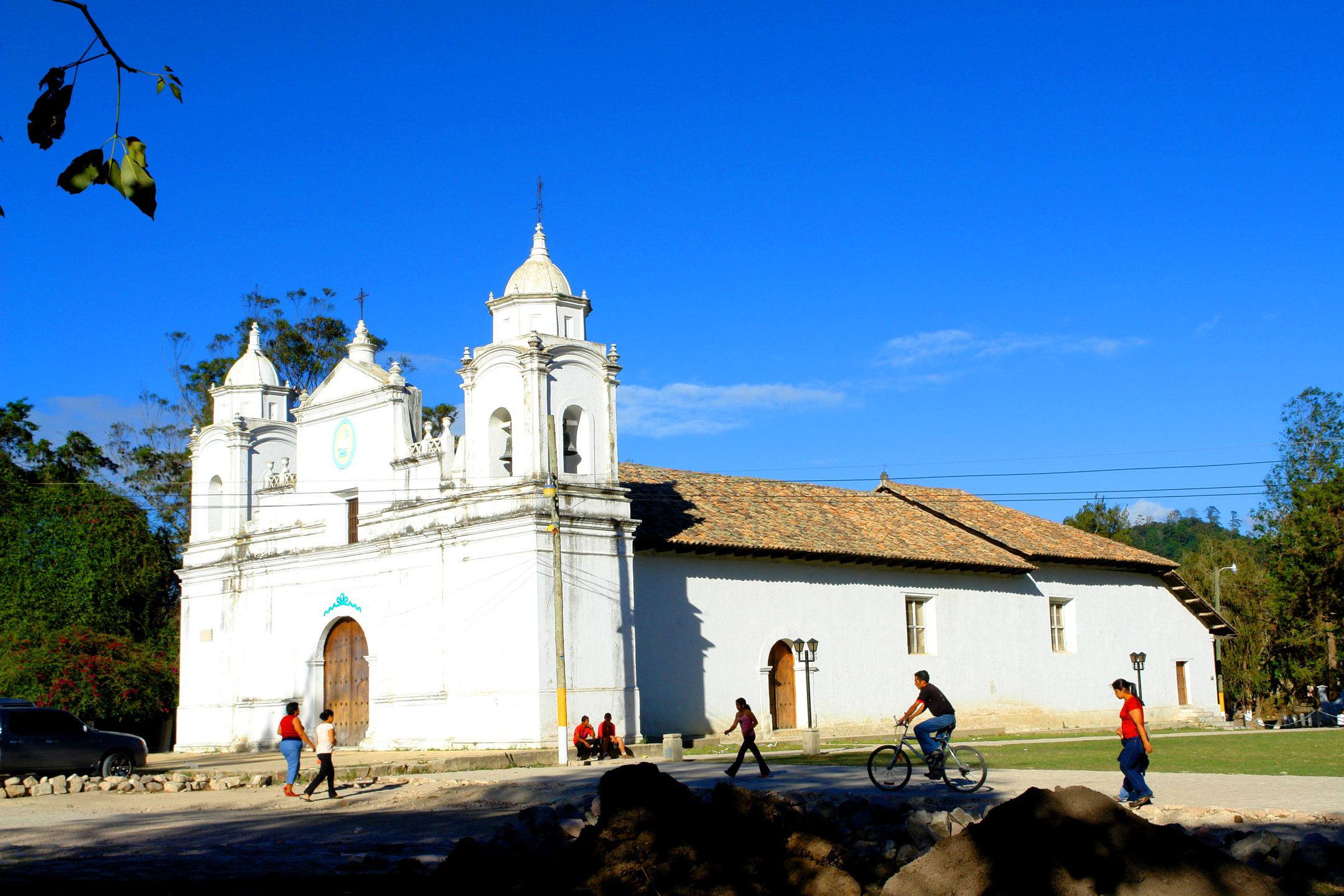 Church in Ojojona, Francisco Morazán Department, Honduras.